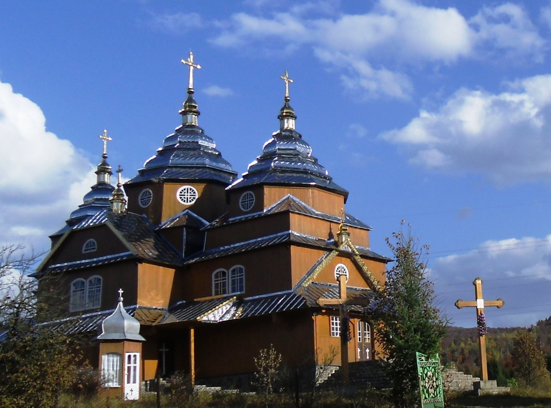 Church of the Blessed Eucharist, Klymets (a wooden 1825). The village in Skole district, Lviv region.